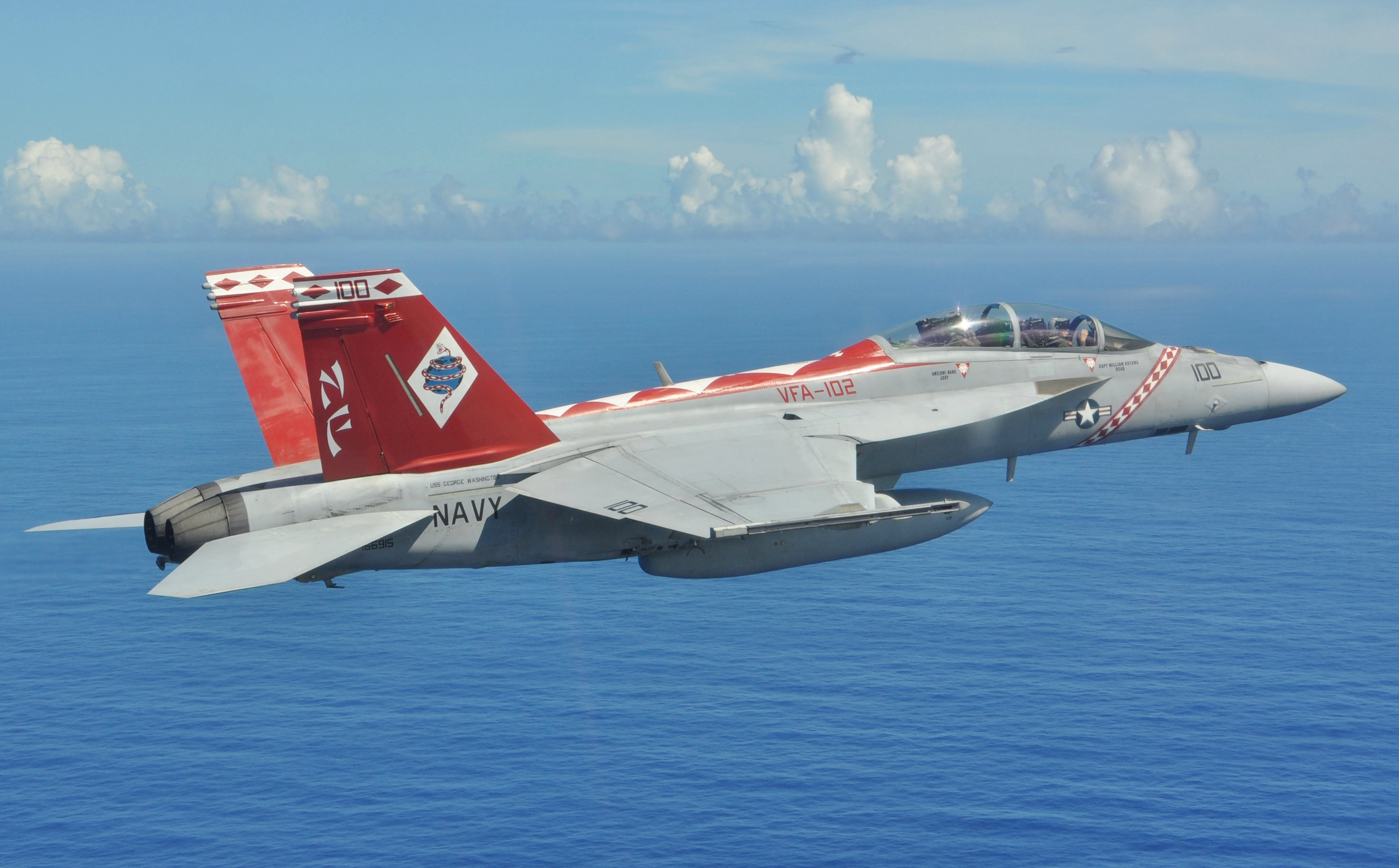 A U.S. Navy F/A-18F Super Hornet aircraft assigned to Strike Fighter Squadron (VFA) 102 flies near the aircraft carrier USS George Washington (CVN 73), not pictured, in the Philippine Sea Aug. 21, 2013. The George Washington was underway in the U.S. 7th Fleet area of responsibility supporting maritime security operations and theater security cooperation efforts. (U.S. Navy photo by Lt. j.g. Douglas Spence/Released)